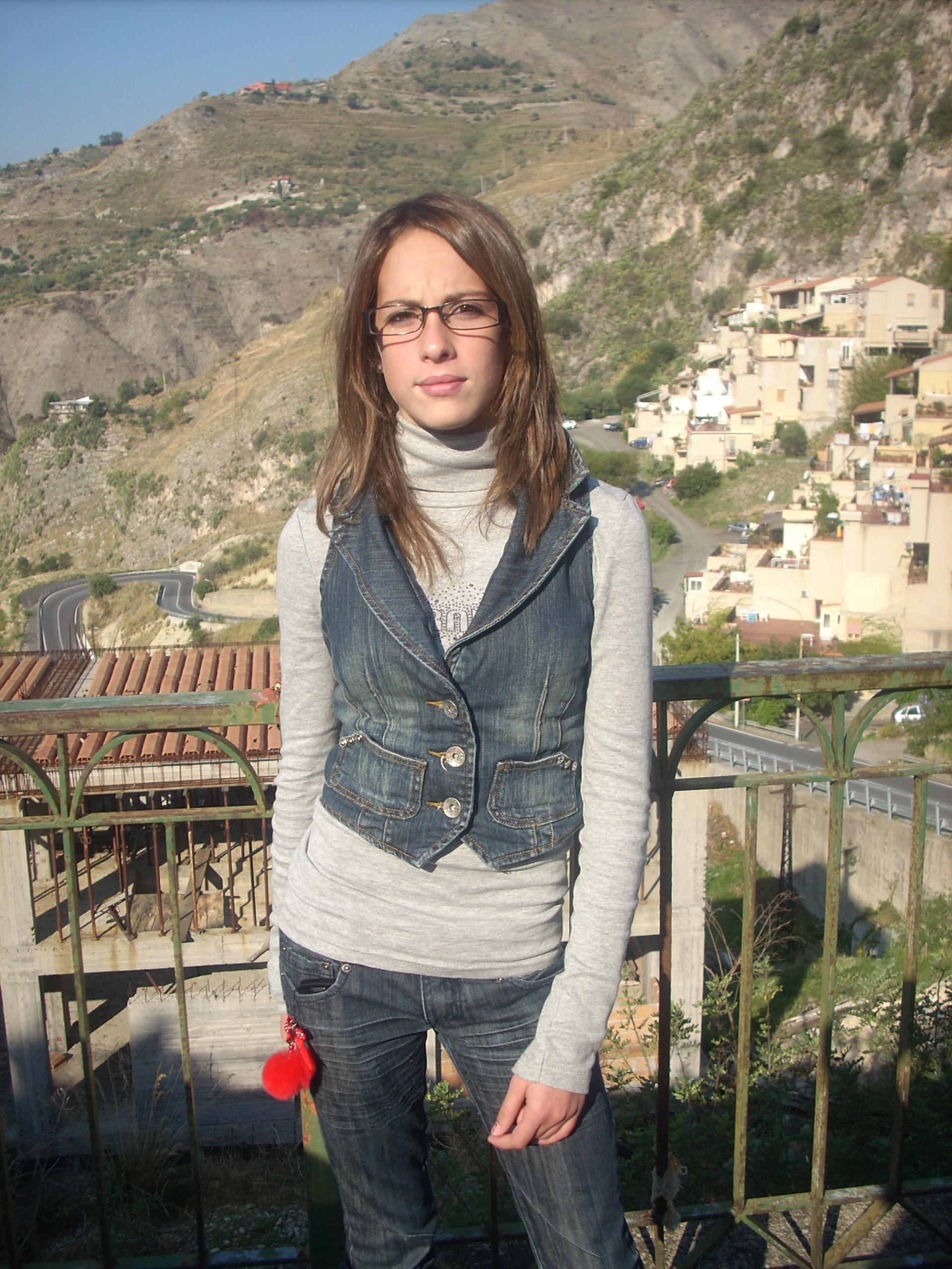 Girl wearing denim waistcoat